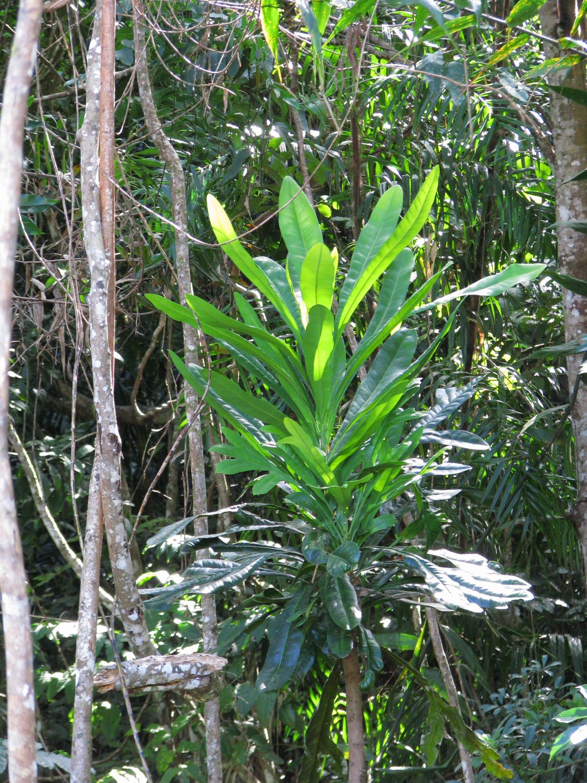 Placospermum coriaceum sapling, by tanetahi, in Flickr . Taken on 27 June 2009 in Kuranda, Queensland, Australia, using a Canon PowerShot S5 IS camera.